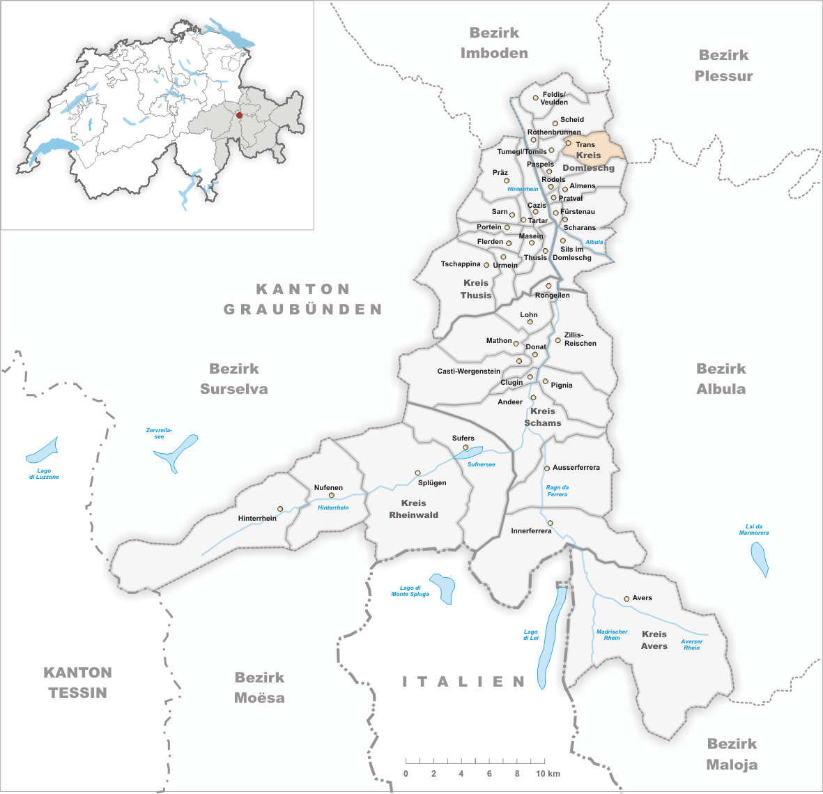 Municipality Trans